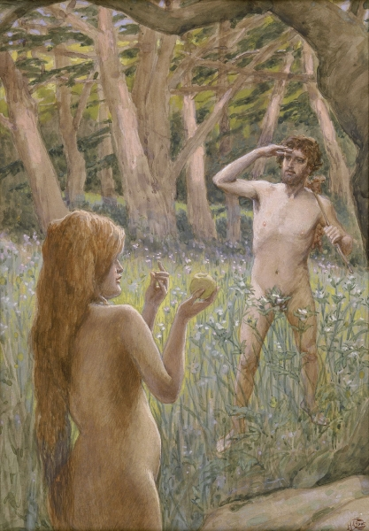 Adam Is Tempted by Eve, c. 1896-1902, by James Jacques Joseph Tissot (French, 1836-1902), gouache on board, 9 7/8 x 6 7/8 in. (25 x 17.6 cm), at the Jewish Museum, New York